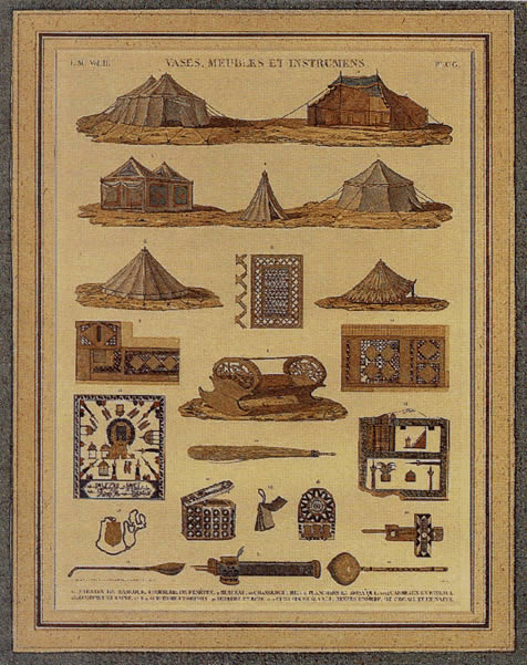 Different things which were found in Egypt by the French expedition sent by Napoleon III.